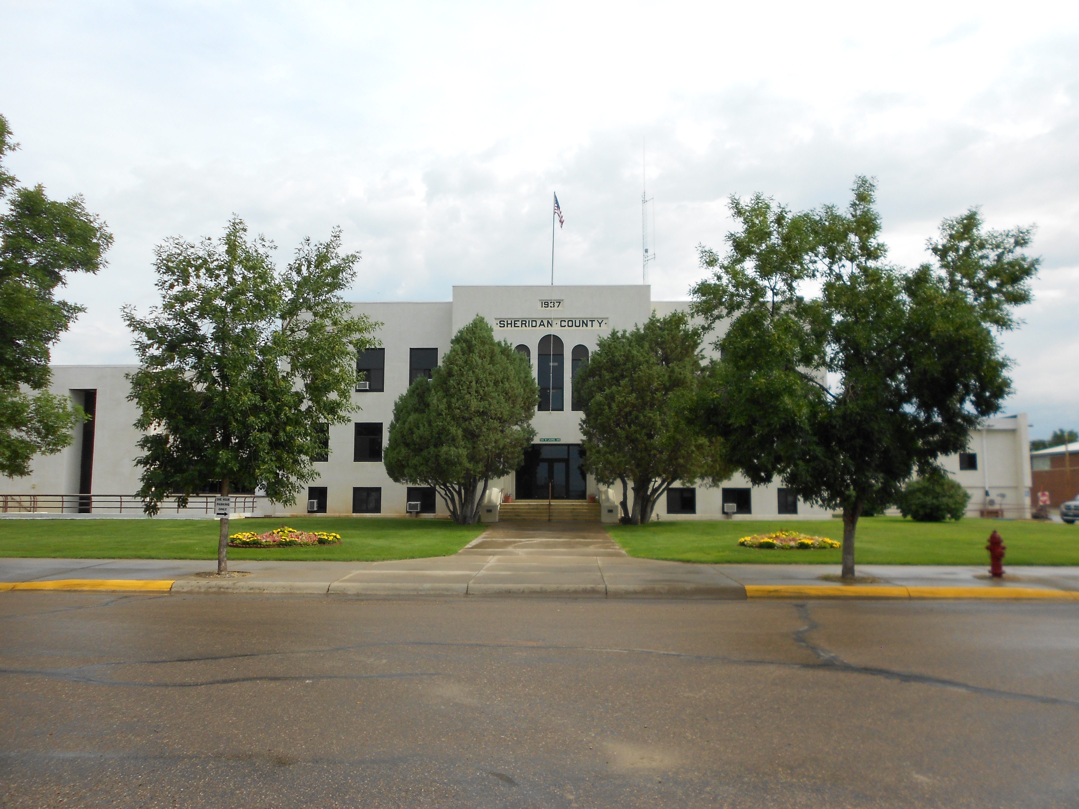 Sheridan County Courthouse- Plentywood MT